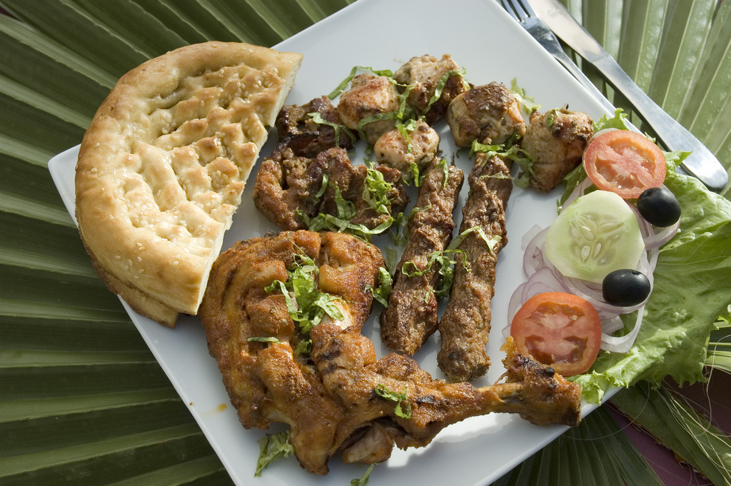 BBQ on a plate, available in Palm Resorts, Karachi